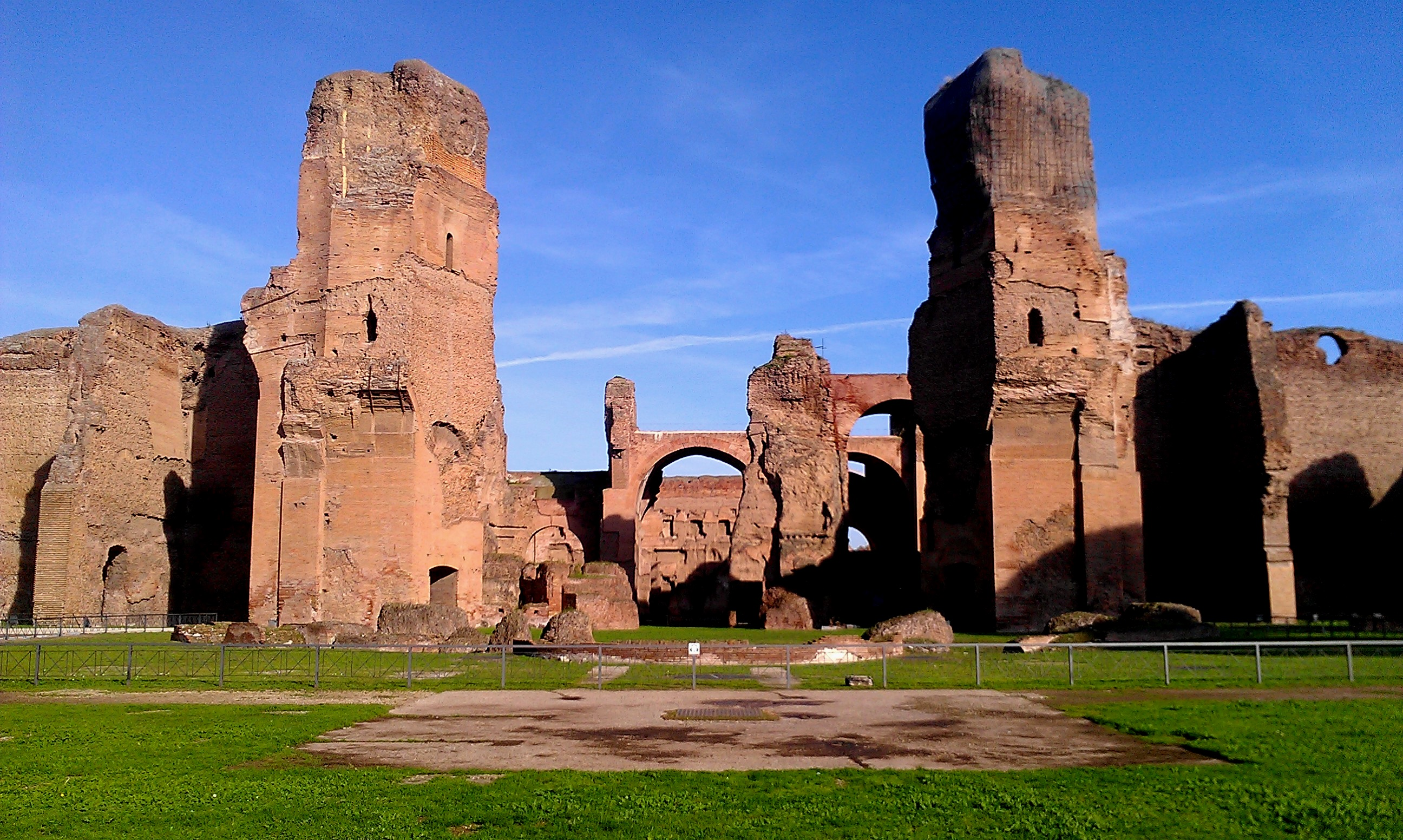 The Baths of Caracalla, Rome. This image is taken from the south-west of the caldarium.